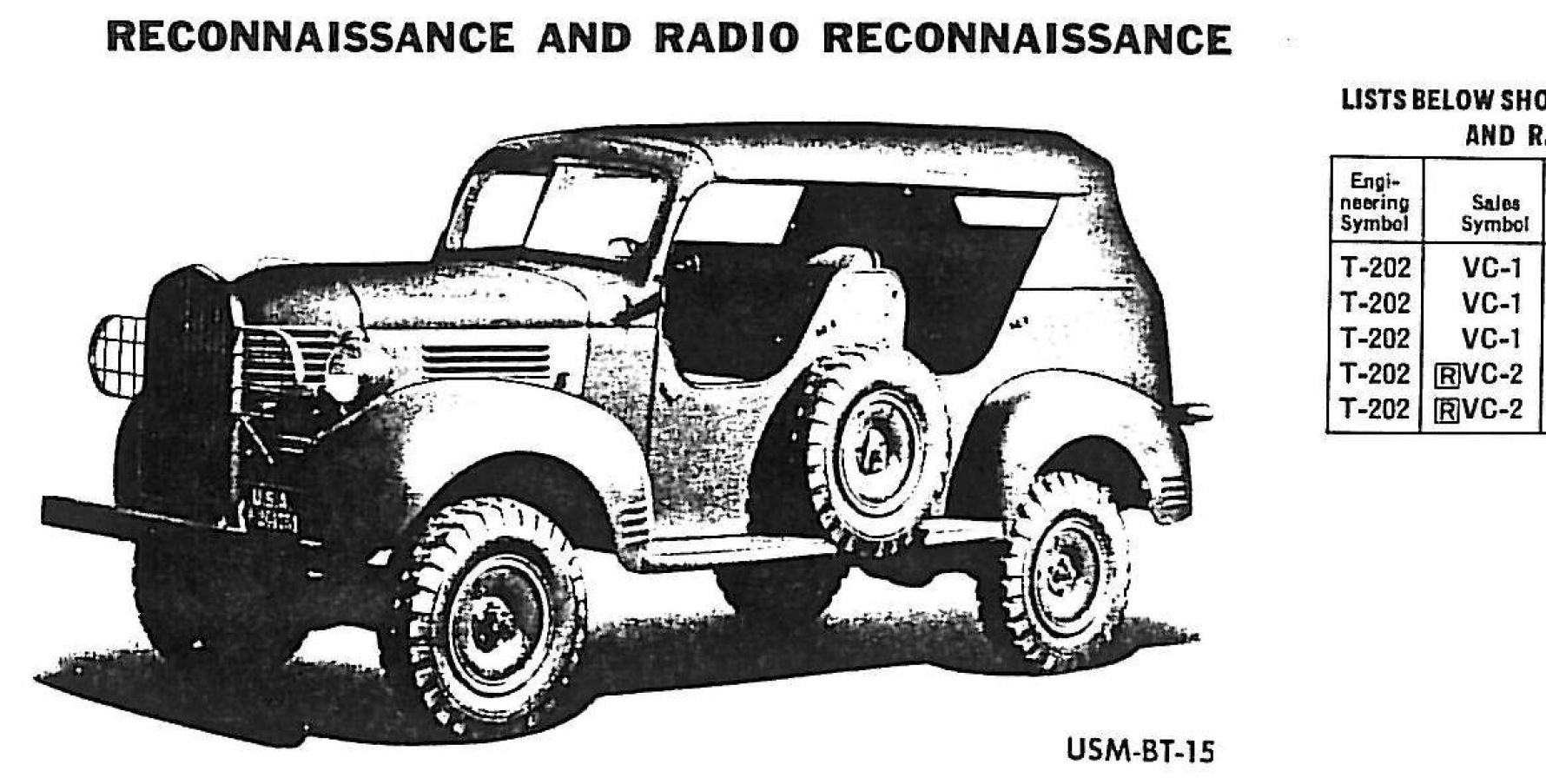 Dodge VC-1 / VC-2 Command Reconnaissance / Radio car (engineering code T-202; body type code USM-BT-15)